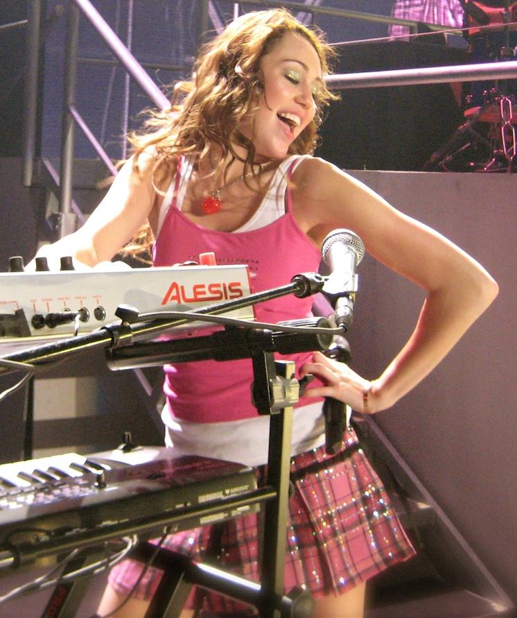 Miley Cyrus plays in concert